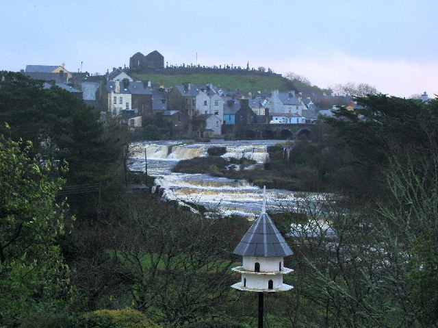 The Falls at Ennistimon. A view of "the Falls" in Ennistimon, taken from the Falls Hotel.